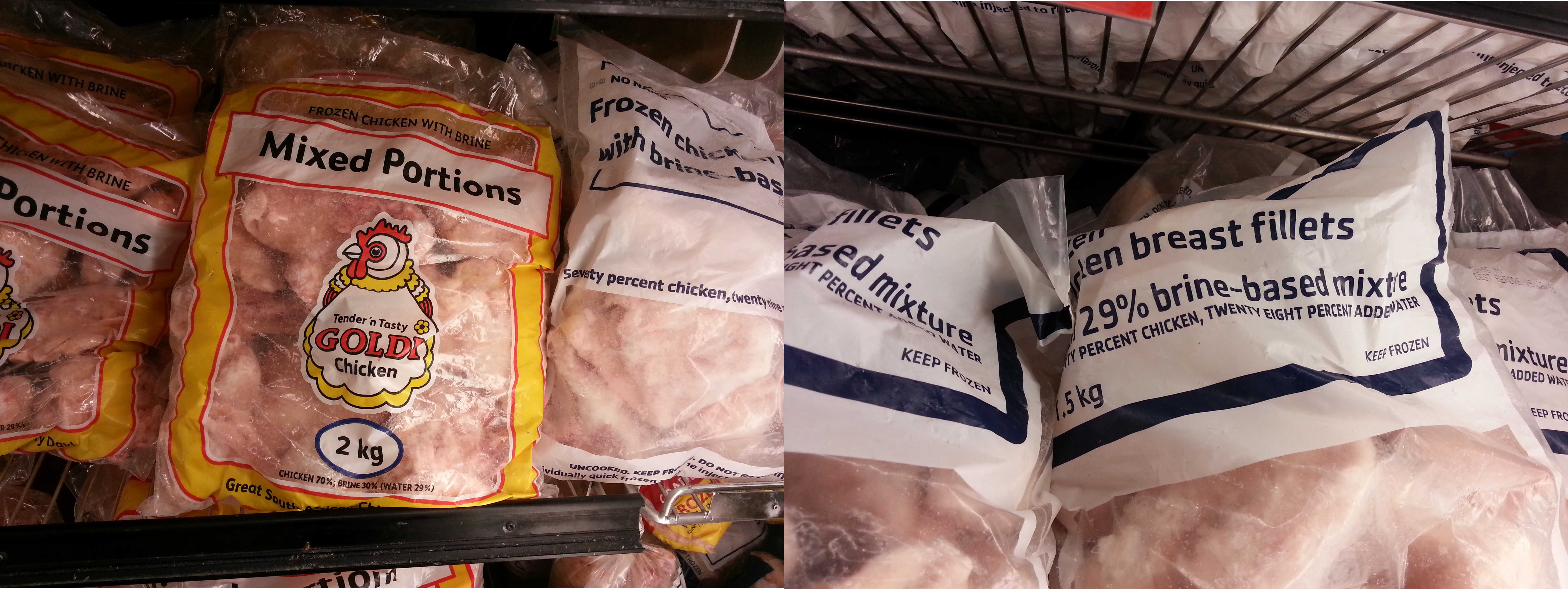 IQF (individually quick frozen) chicken pieces in a South African supermarket freezer (Pick n Pay), labeled with with brine content. We have, starting from the left, a packet of Goldi chicken, a Pick n Pay No Name "braaipack", and a Pick n Pay No Name packet of chicken breast fillets.